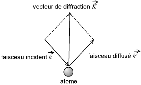 Diffraction vector: difference between the wave vector of the scattered wave and the wave vector of the incident wave